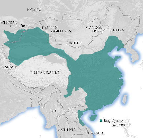 Tang Dynasty circa 700 CE. Derived from Territories_of_Dynasties_in_China.gif.